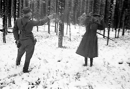 One of 300 images declassified by the Finnish government in 2006 showing the Winter War and Continuation War against the Soviet Union from 1939-45.